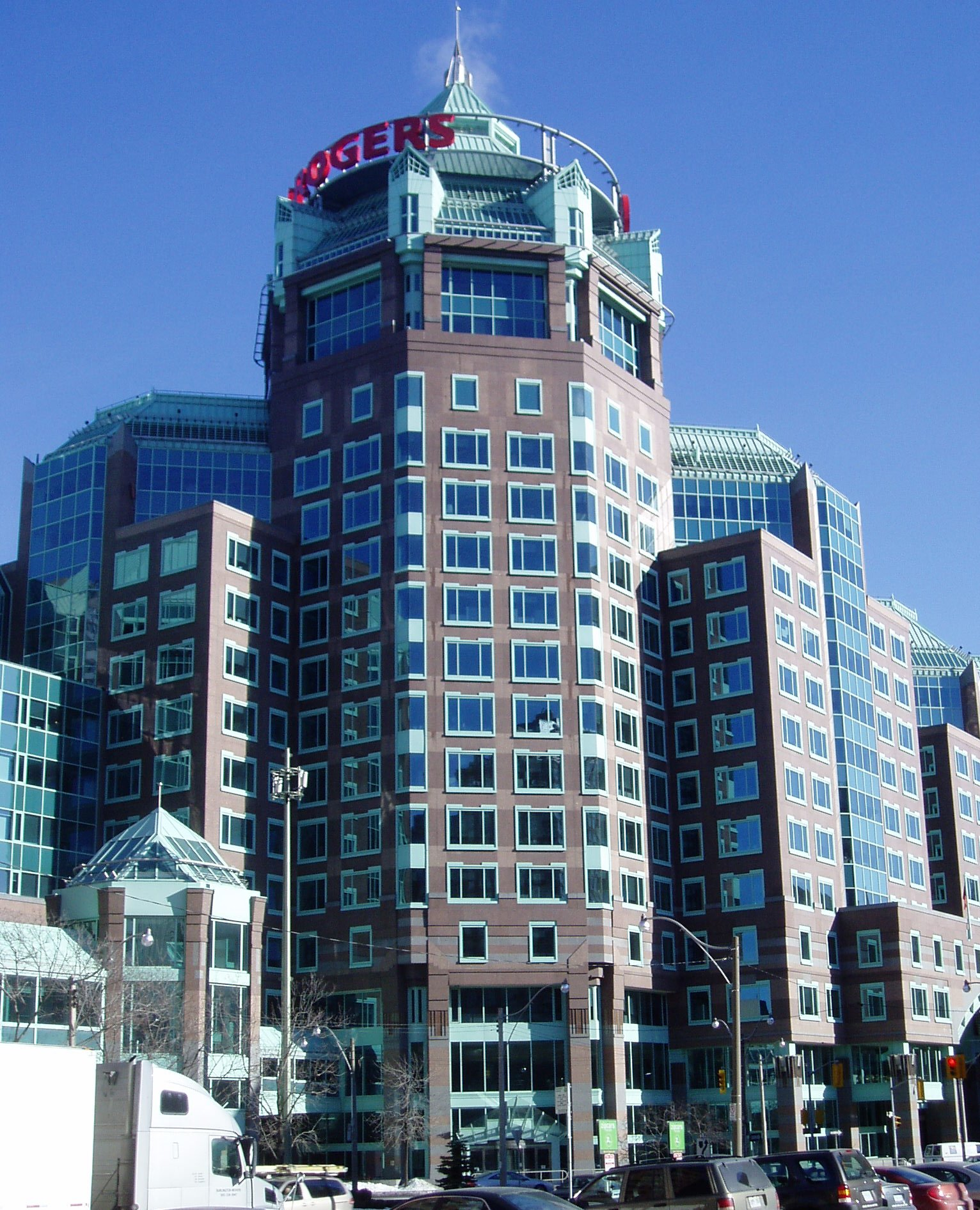 The Rogers Building, the headquarters of Rogers Communications. Formerly the Rogers AT&T Centre, it was originally built as the headquarters of the insurance company Confederation Life. Taken by SimonP